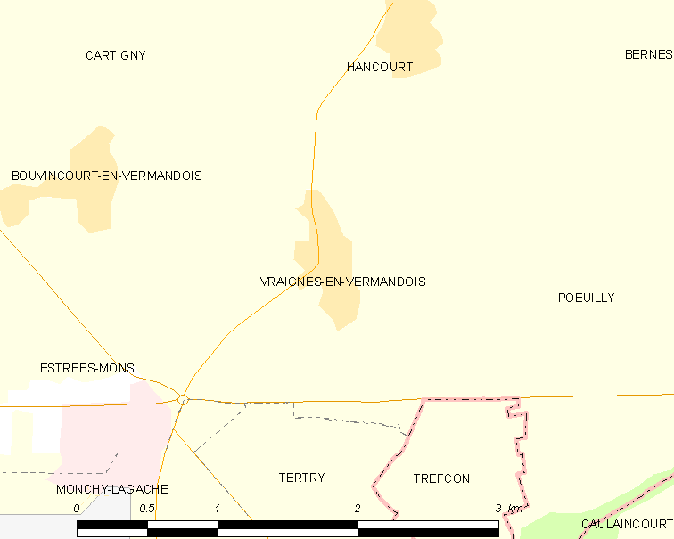 Map of French municipality Vraignes-en-Vermandois